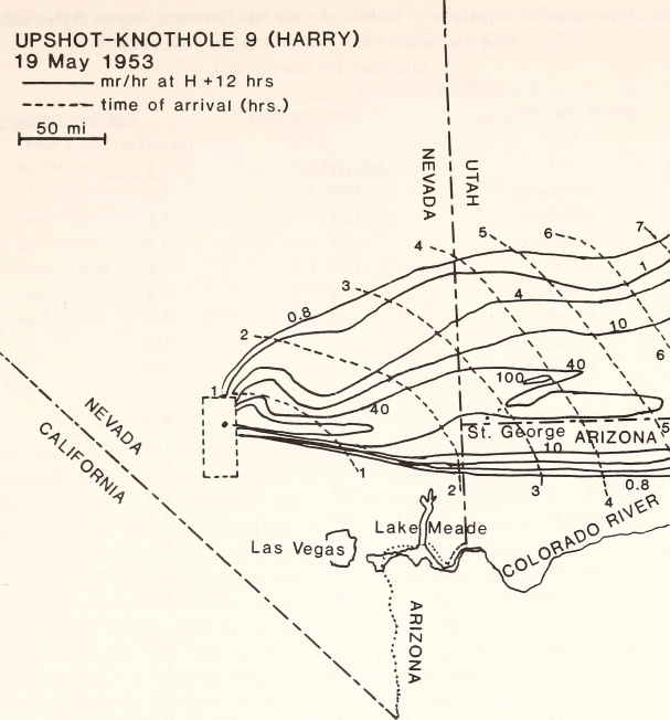 Map showing residual surface radiation intensities in mr/hr at 12 hr after detonation of Shot Harry on May 19, 1953